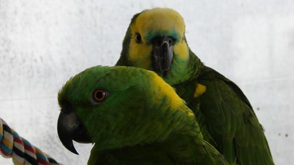 Yellow-naped Amazon (Amazona auropalliata) in in front and of a Blue-fronted Amazon (Amazona aestiva).